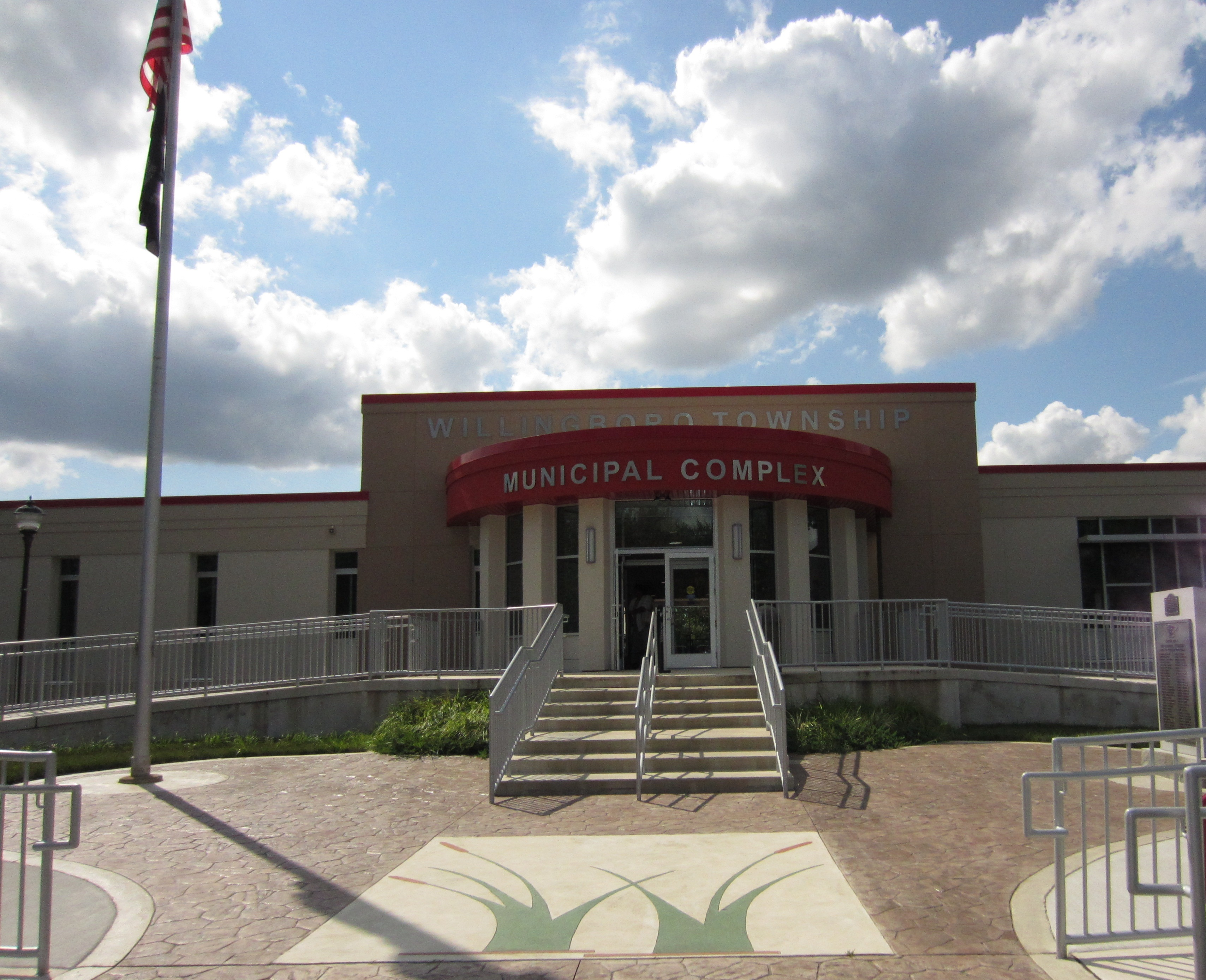 Picture of Willingboro's municipal building